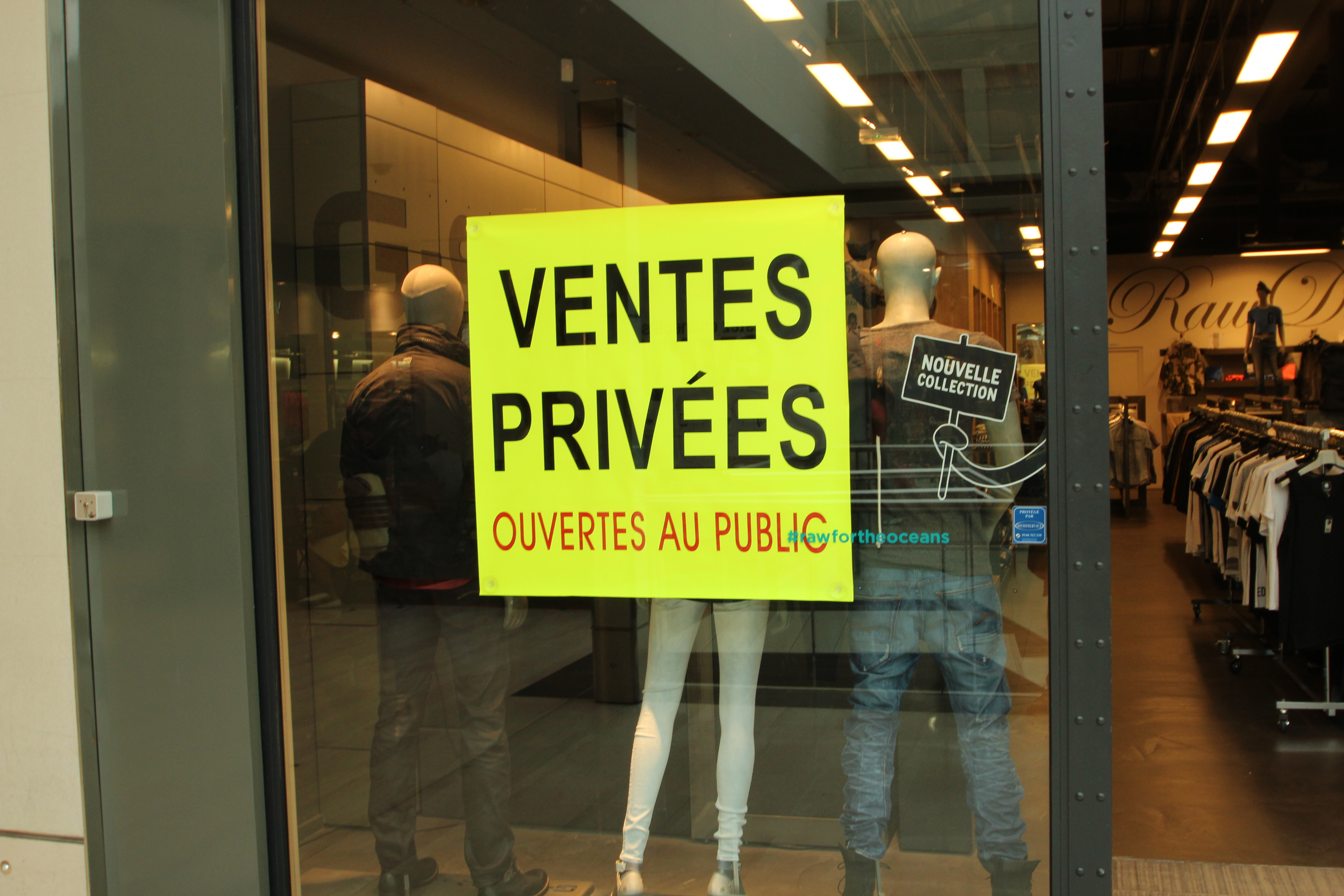 Unintentional humor with this sign saying "Private sales open to the public" in french in Évry 2 shopping center in Évry, Essonne in France.